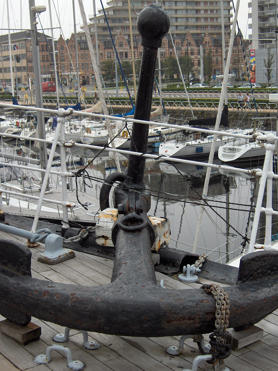 stocked anchor Own work - photo taken by Georges Jansoone on 11 September 2005